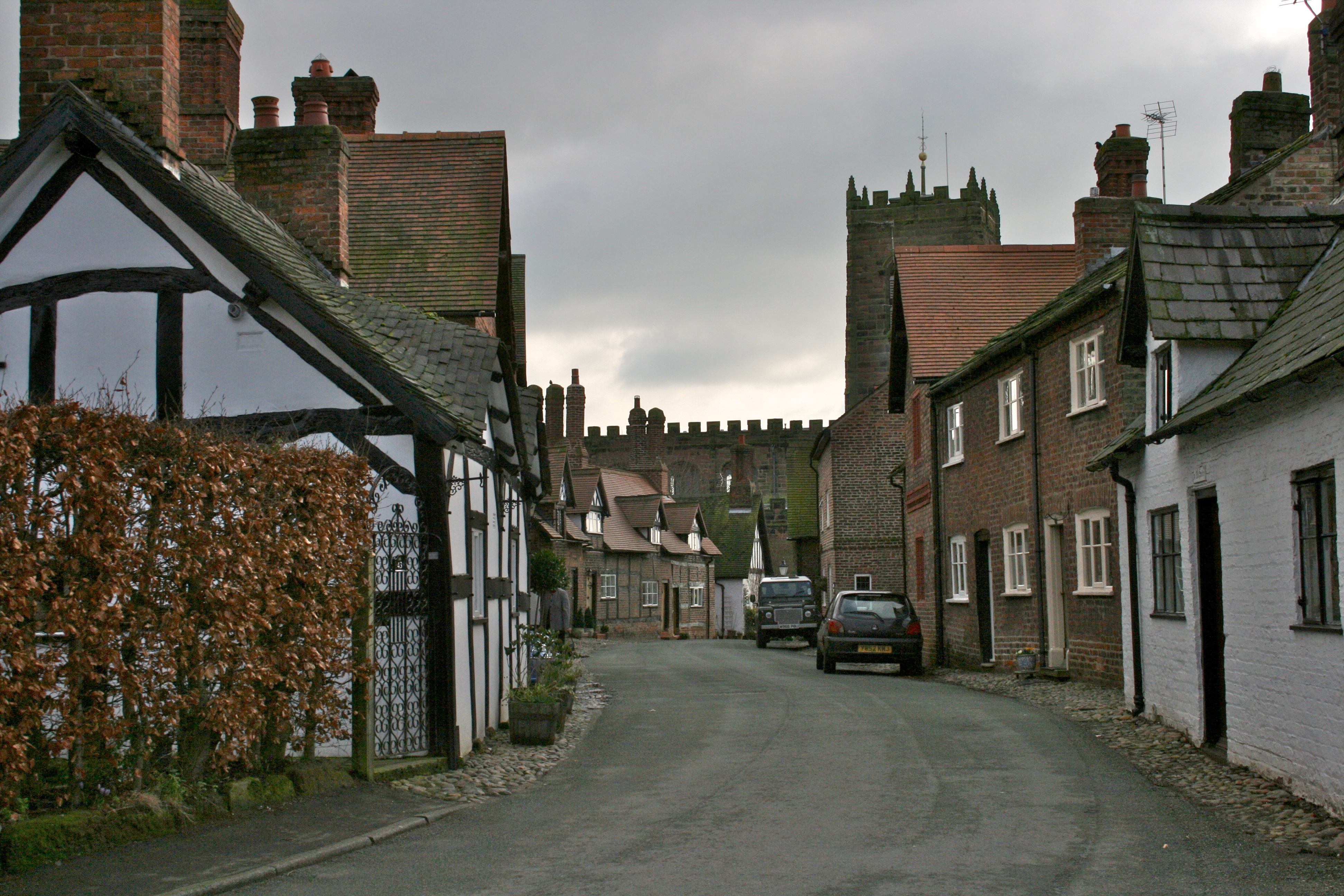 Smithy Lane: Great Budworth Conservation Area, England.